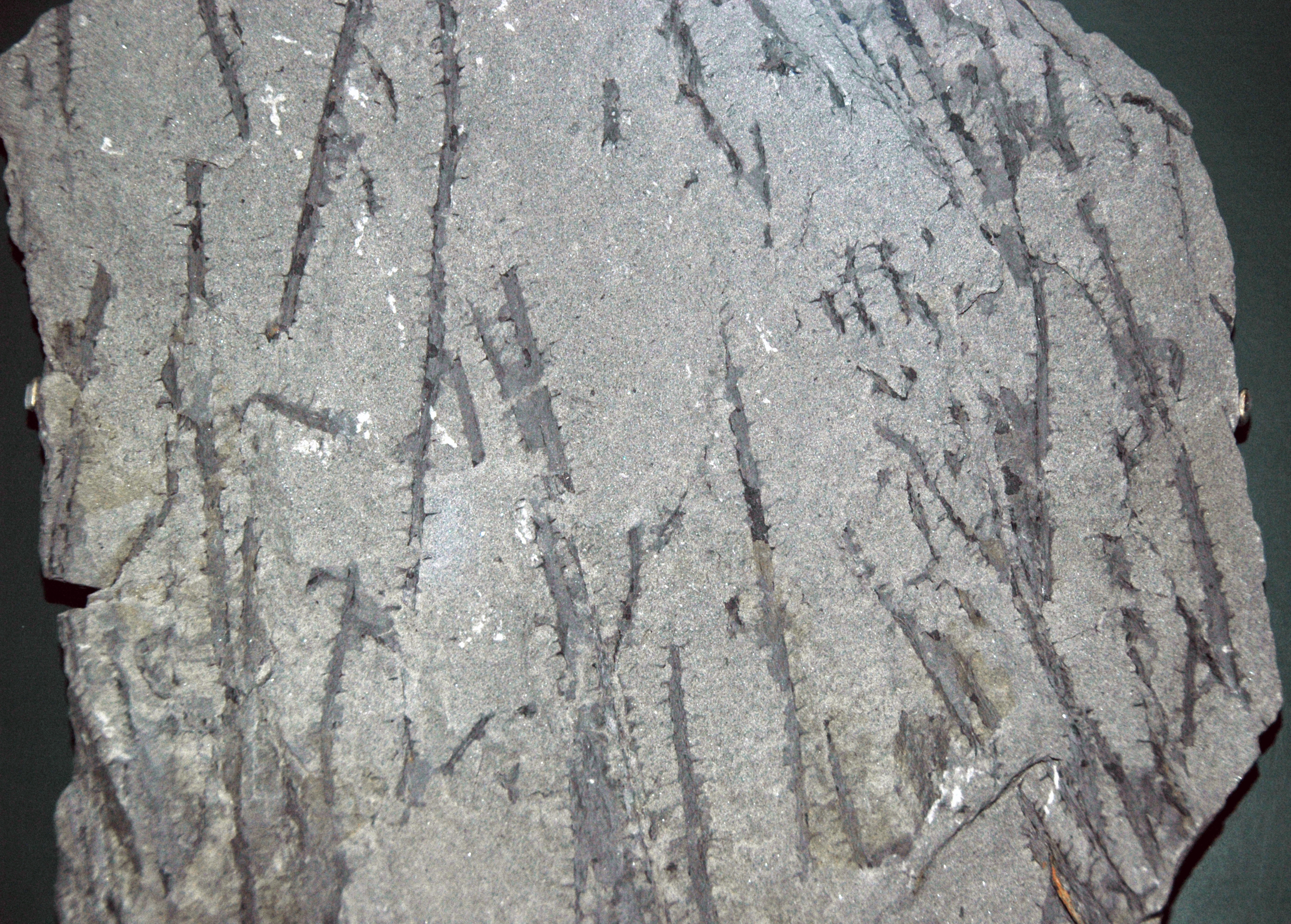 Sawdonia ornata - fossil land plants from the Devonian of Quebec, Canada. (FMNH PP33627, Field Museum of Natural History, Chicago, Illinois, USA) Plants are multicellular, photosynthetic eucaryotes. The oldest known land plant body fossils are Silurian in age. Fossil root traces of land plants are known back in the Ordovician. The Devonian was the key time interval during which land plants flourished and Earth experienced its first “greening” of the land. The earliest land plants were small and simple and probably remained close to bodies of water. By the Late Devonian, land plants had evolved large, tree-sized bodies and the first-ever forests appeared. Sawdonia is an early land plant. The specimens shown here are preserved as carbonized compressions. Notice that the stems (axes) have numerous spines (click on the photo to zoom in). Sawdonia is a member of the Zosterophyllopsida, which was the ancestral group of the lycopods (scale trees). Classification: Plantae, Tracheophyta, Zosterophyllopsida, Sawdoniales, Sawdoniaceae Stratigraphy: unrecorded/undisclosed Locality: unrecorded/undisclosed site in Quebec, Canada See info. at